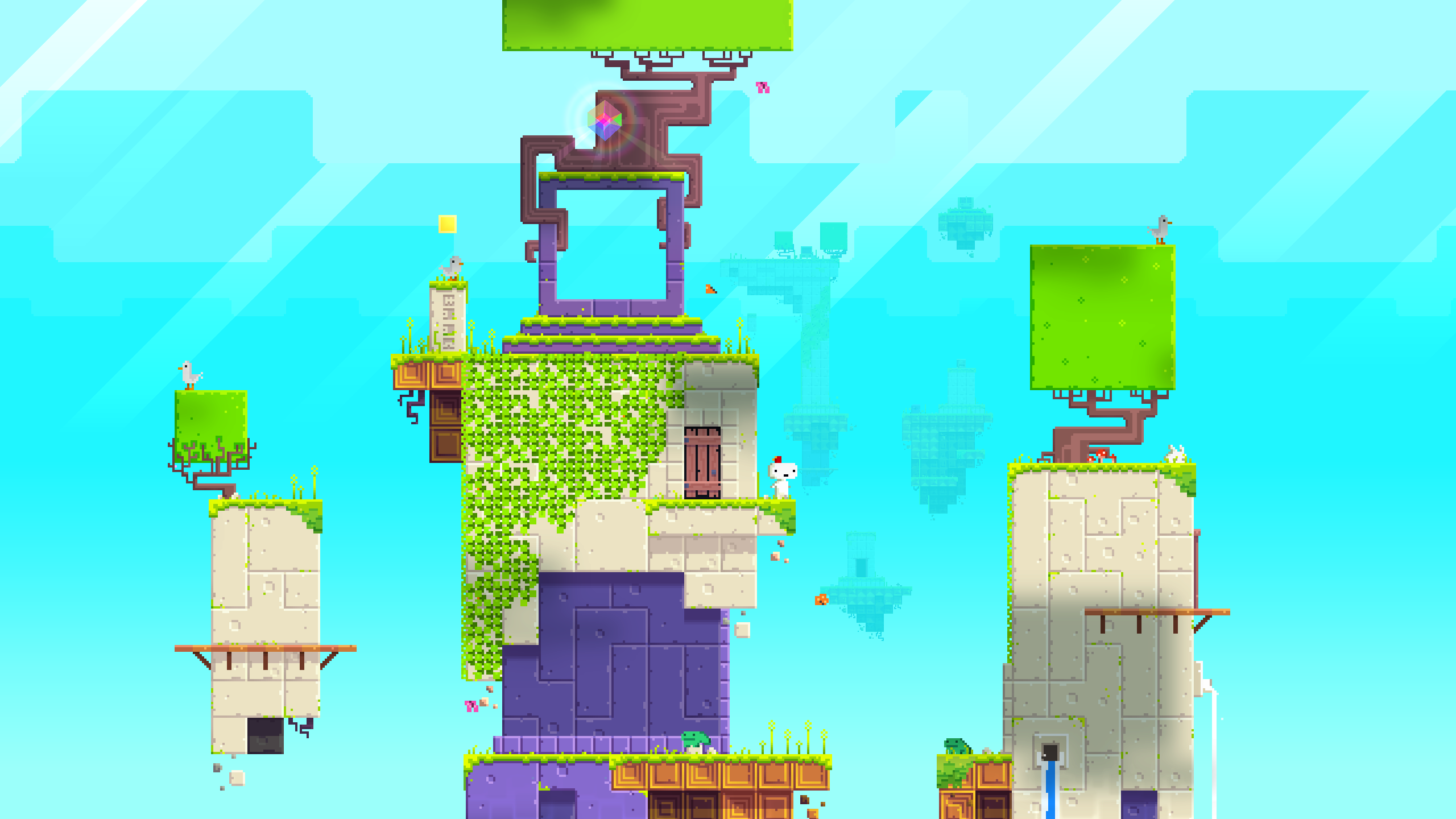 Screenshot from Fez press kit